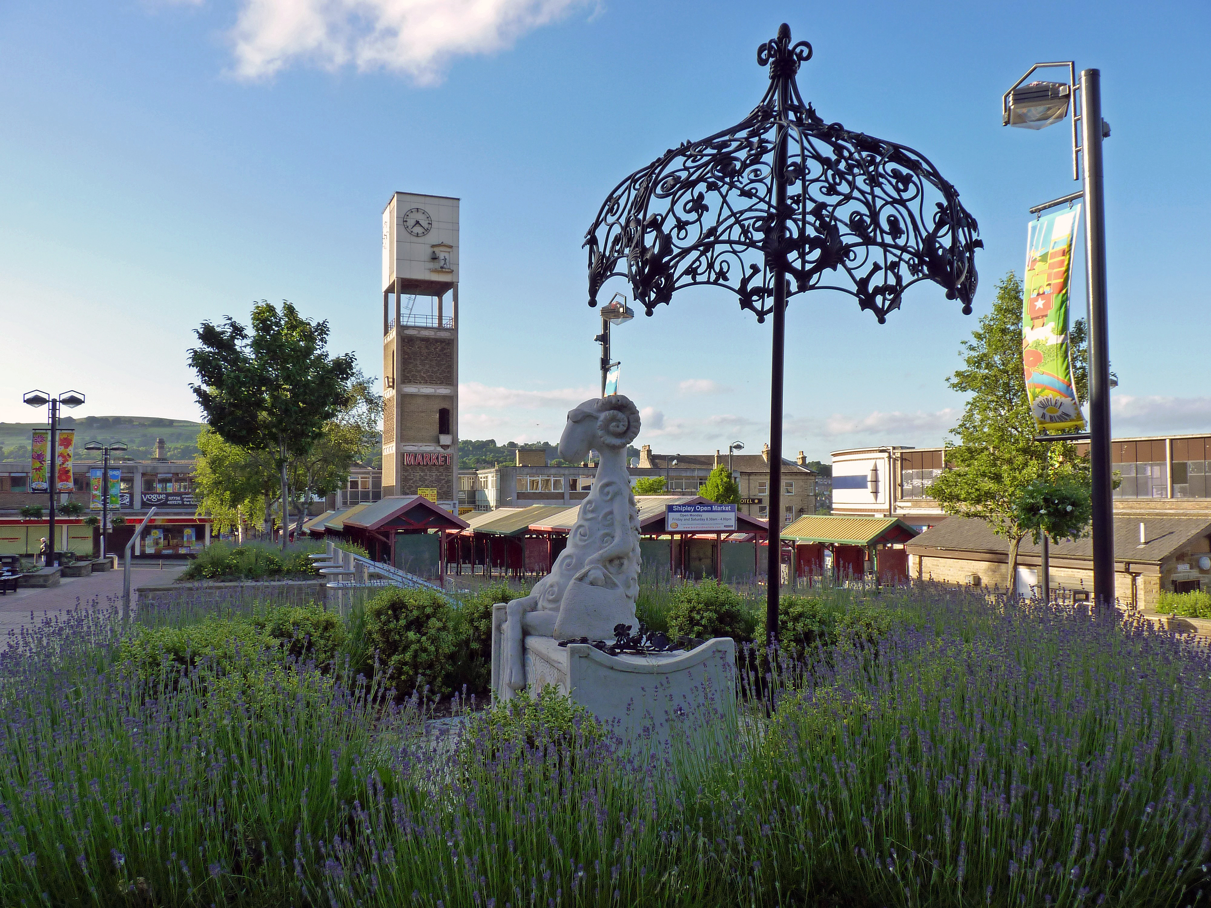 Shipley Town Centre